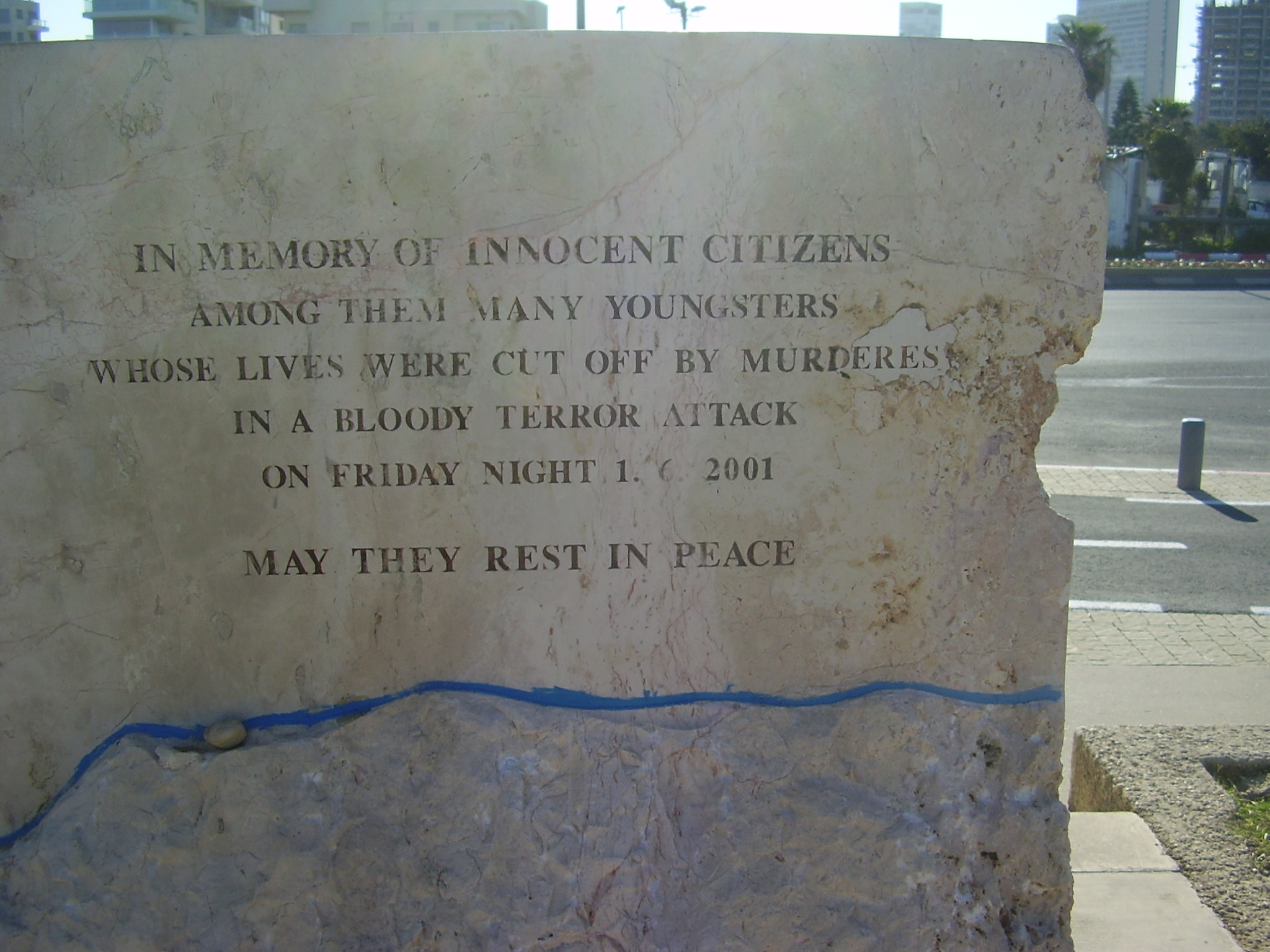 inscription on the back of the dolphinarium massacre memorial(1/6/2001) in tel aviv